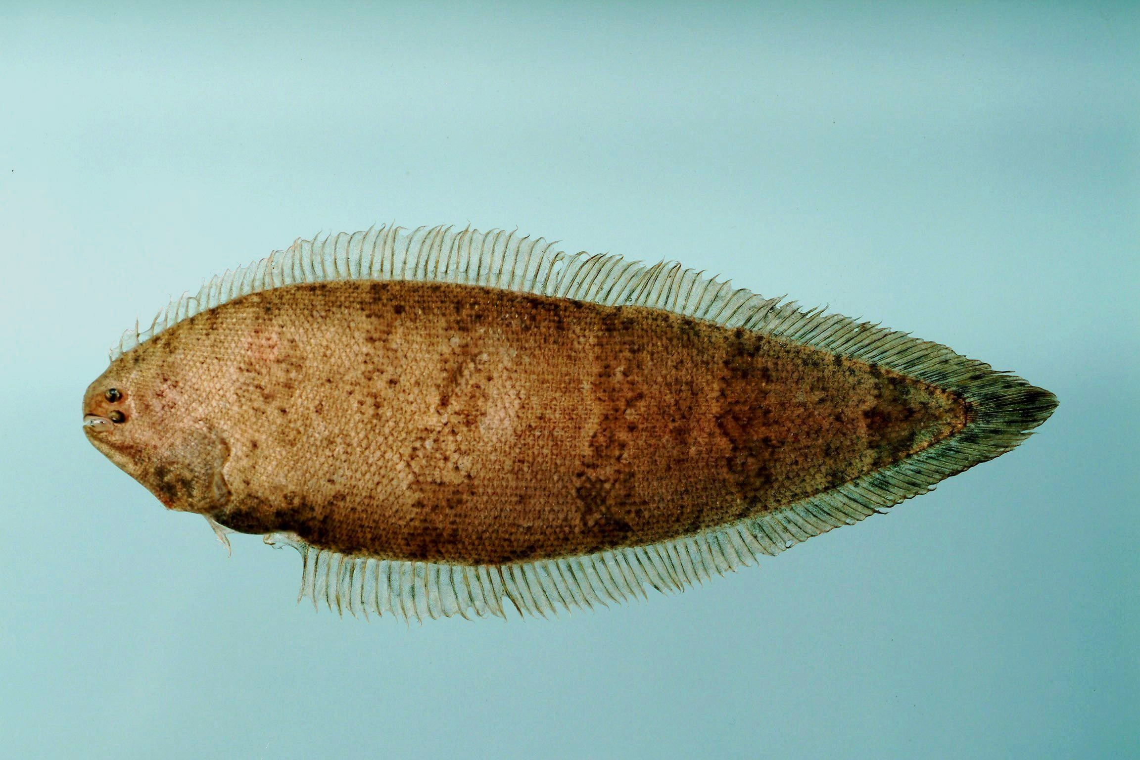 Offshore tonguefish ( Symphurus civitatium )